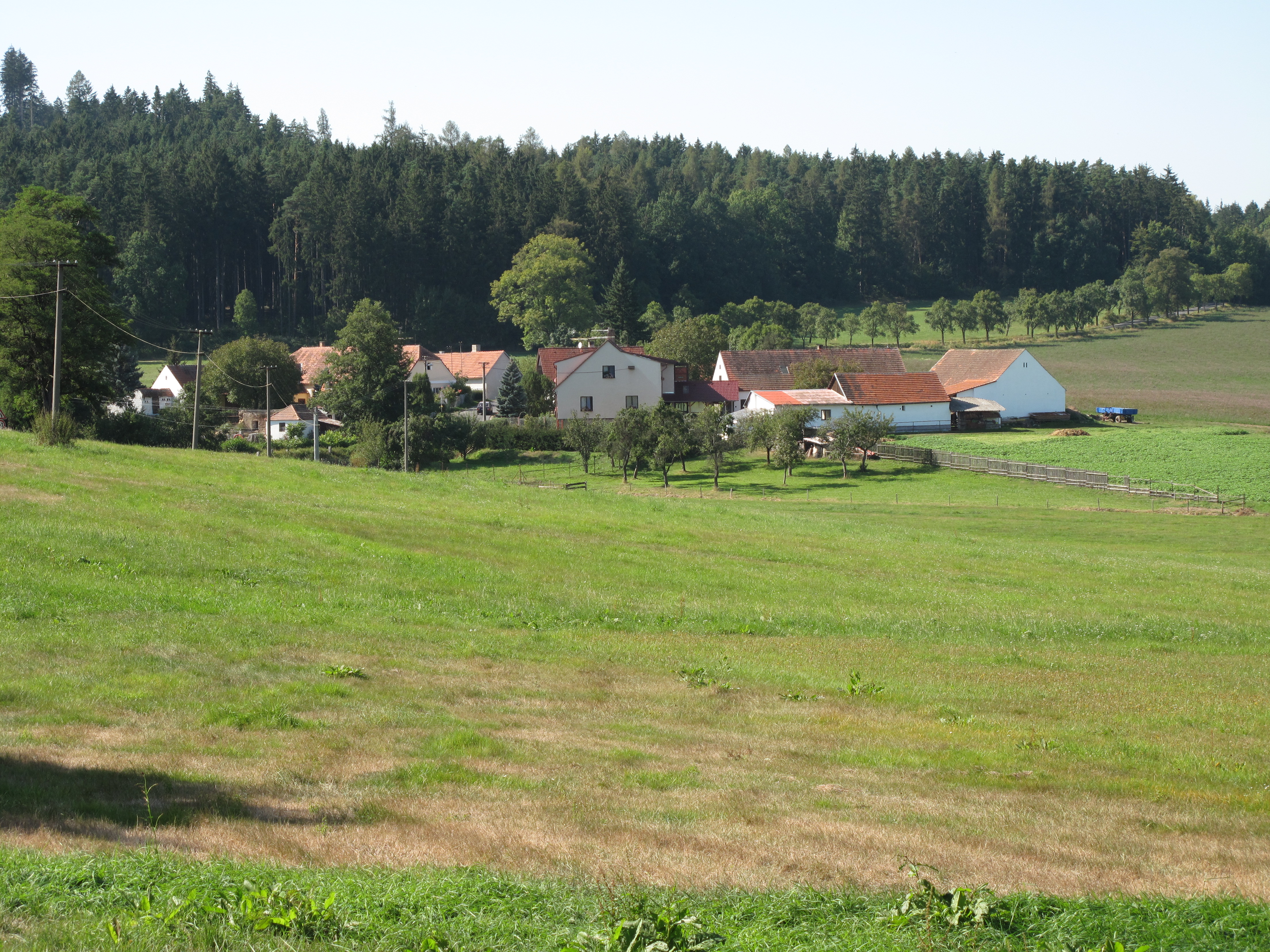 View at hamlet near Nová Ves village (Čížová municipality), Písek District, Czech Republic.